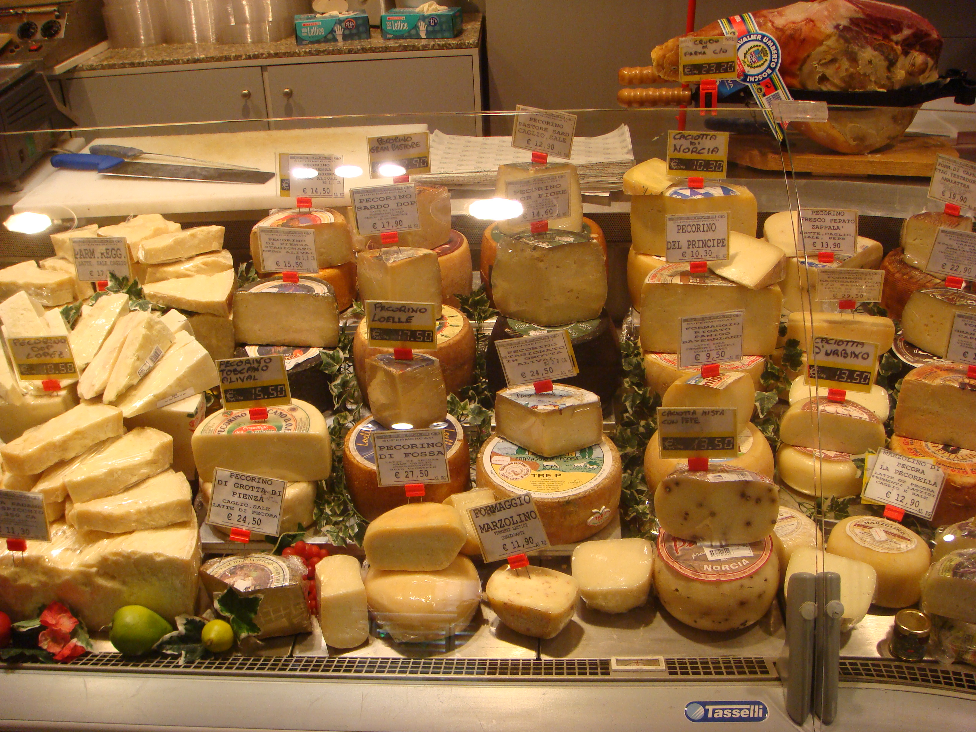 Italian cheeses.